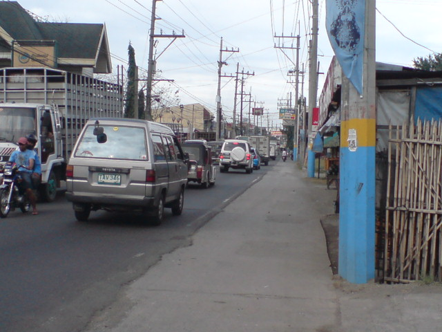 Fortunato F. Halili Avenue, Barangay Bagbaguin, Santa Maria, Bulacan